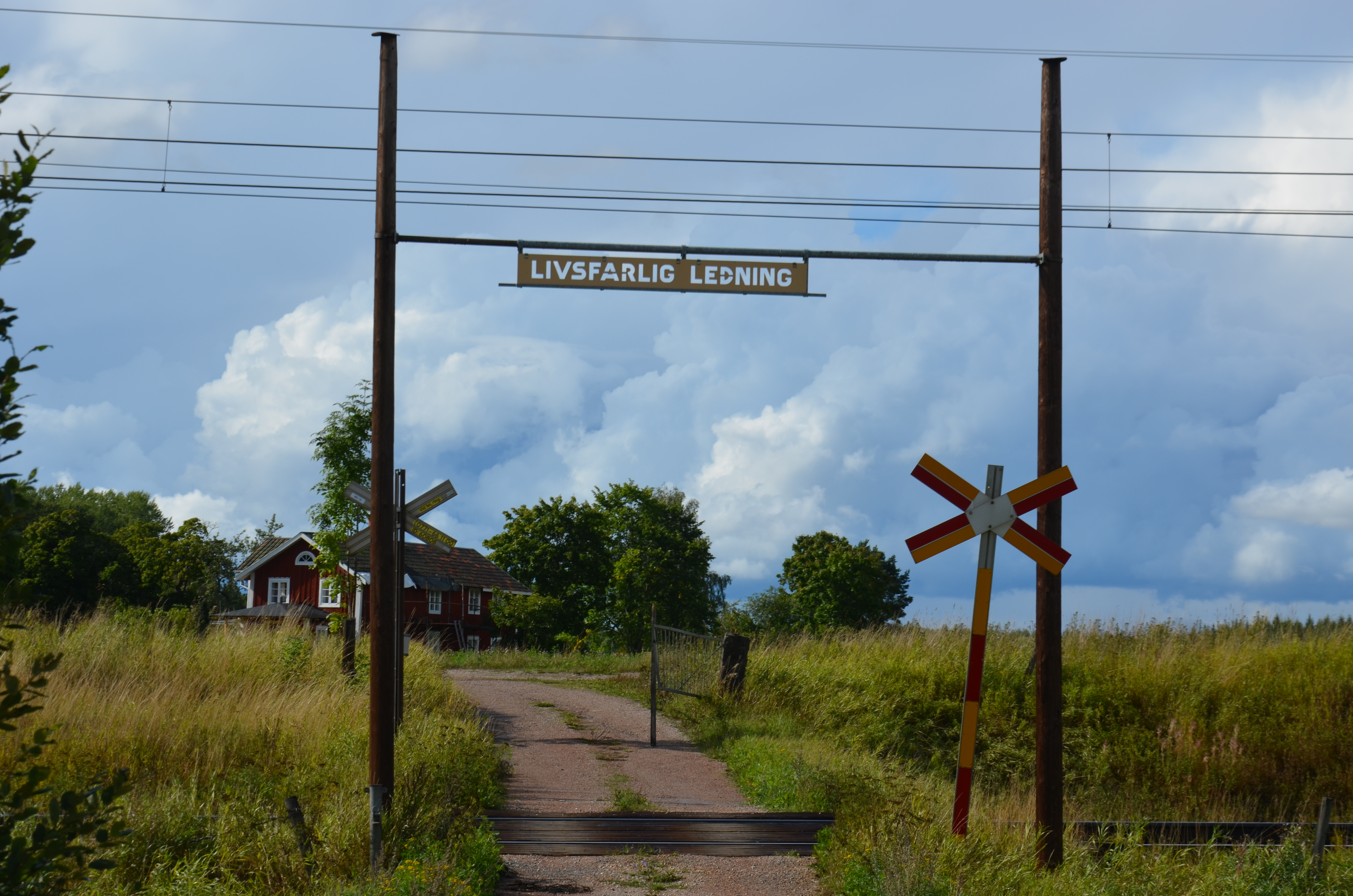 Obevakad järnvägsövergång, Godsstråket genom Bergslagen förbi Snytsbo